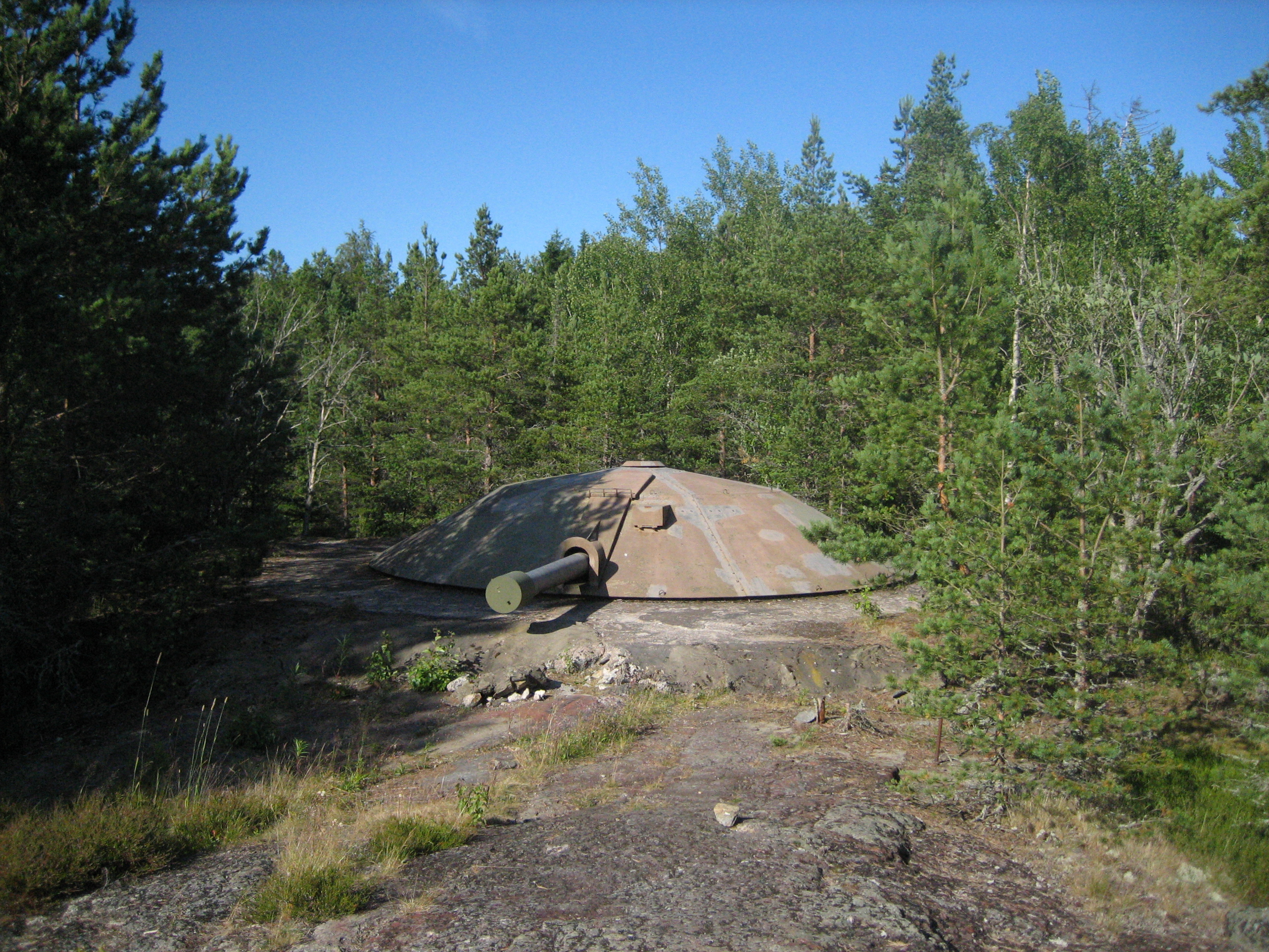 152 mm fixed coastal artillery cannon 152/50 T (modernized Canet cannon) at the former fortress of Kuuskajaskari, off the port of Rauma, Finland.